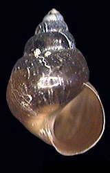 Assiminea_grayana; marine snail from the Netherlands.